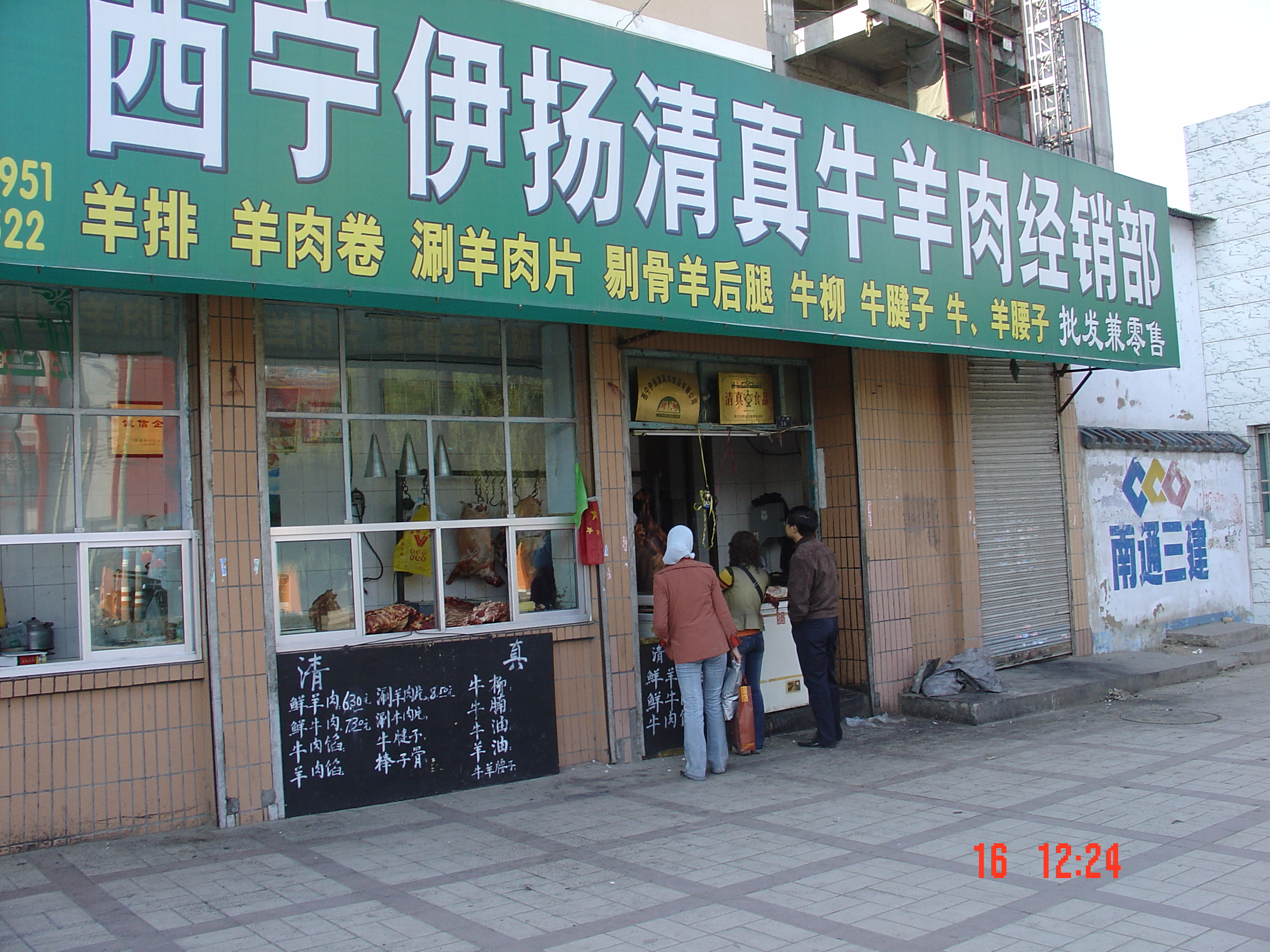 Muslim butchershop in Xining (Qinghai, China).